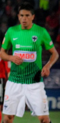 Monterrey player Othoniel Arce